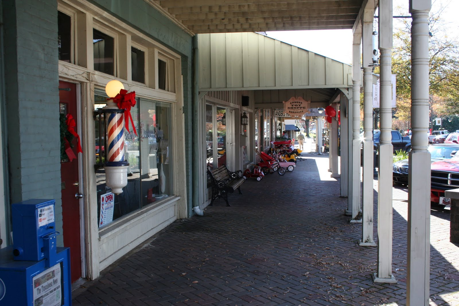 A view of Downtown Northport Alabama, standing in front of the barber shop and looking South toward the river.